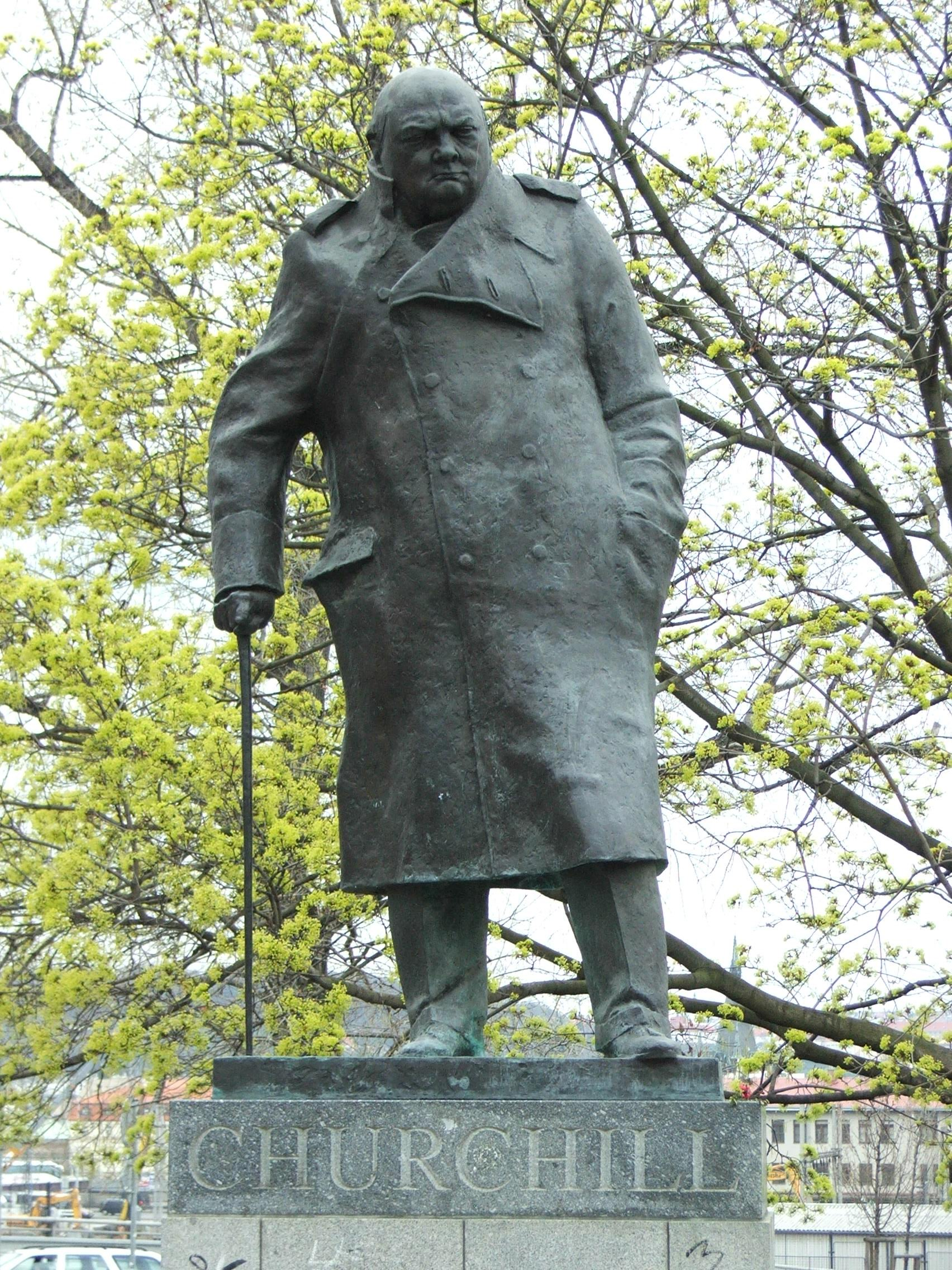 Winston Churchill statue on Churchill Square in Prague - Žižkov, Czechia